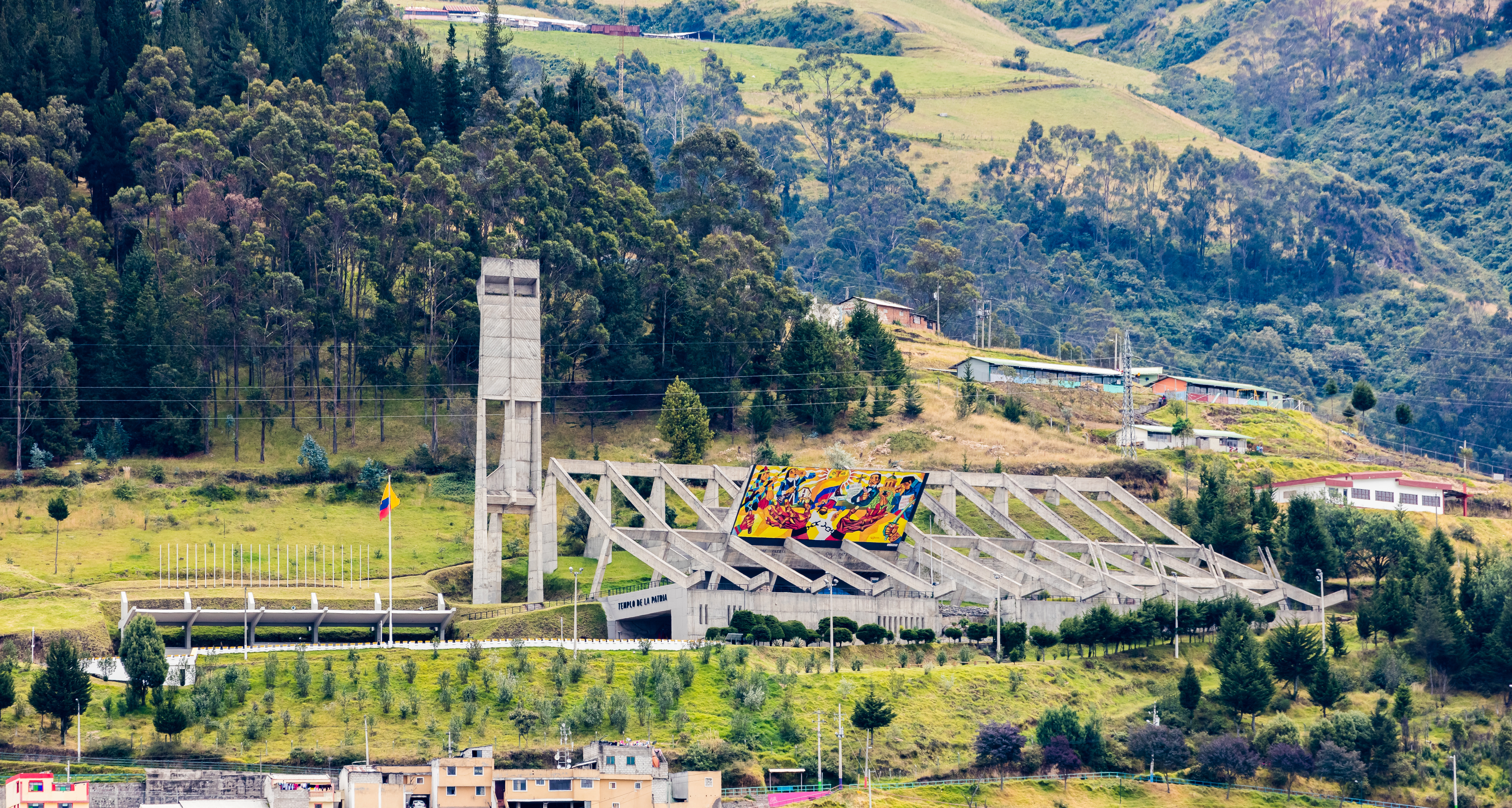 Temple of the Fatherland, Quito, Ecuador